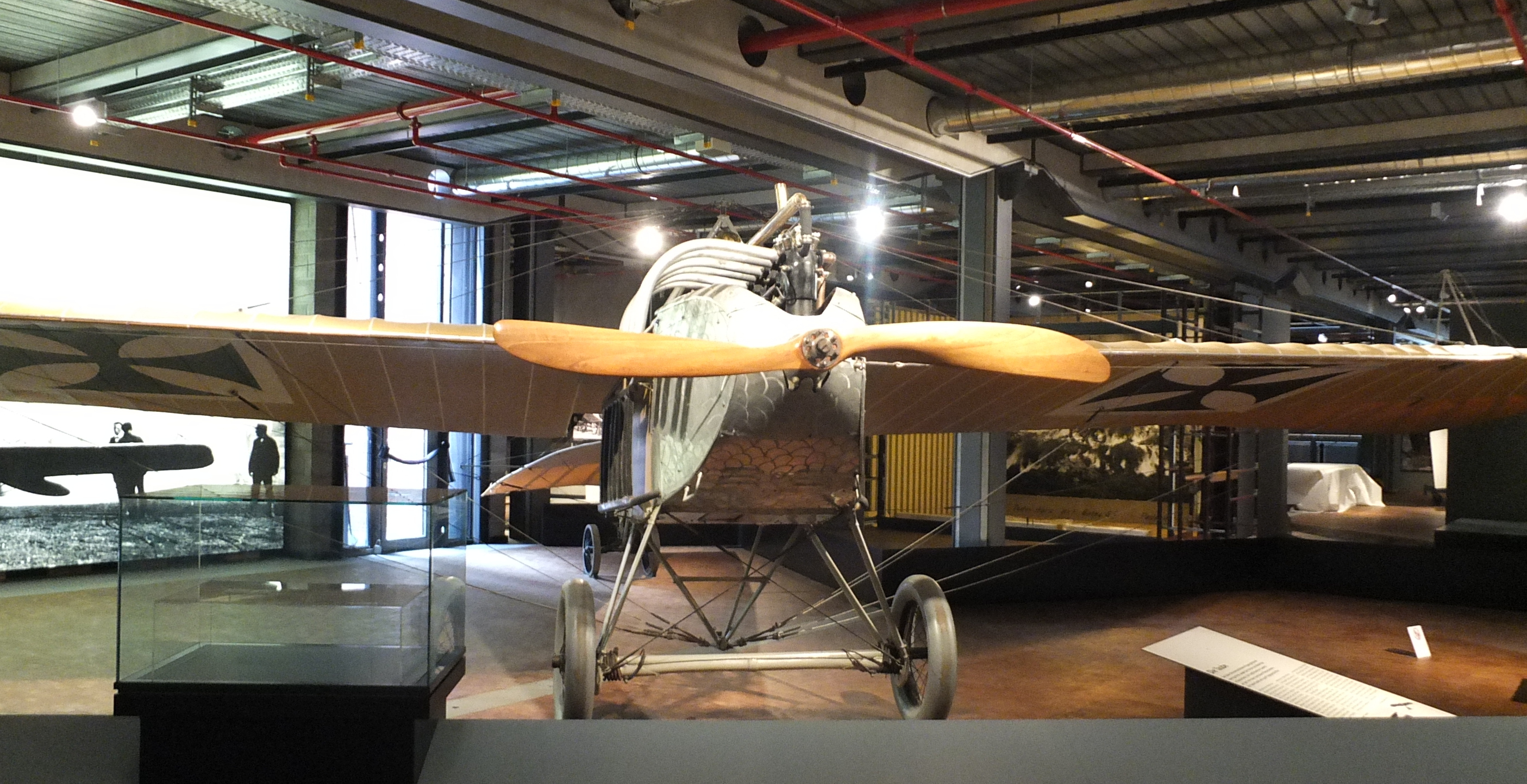 Etrich Taube, here in the version of Jeannin Stahltaube with metal frame, in the Deutsches Technikmuseum, Berlin.